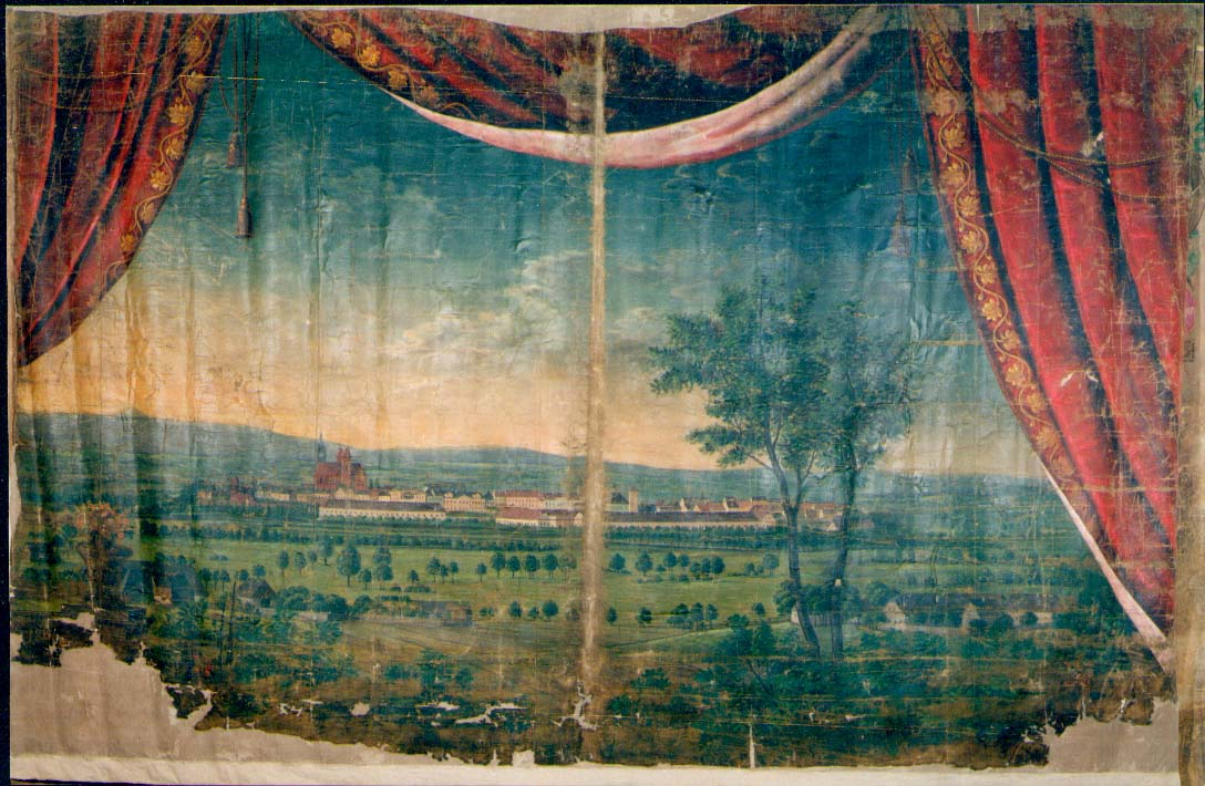 Curtain painted by Tobias Mössner in 1838 for Stage of amateurs in Hradec Kralove (Jeviště královehradeckých ochotníků), Czech Republic